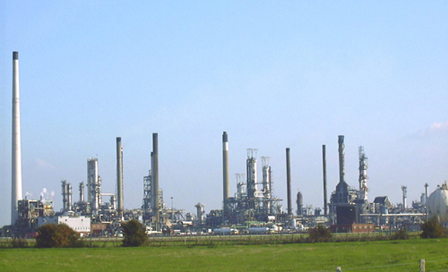 terry joyce